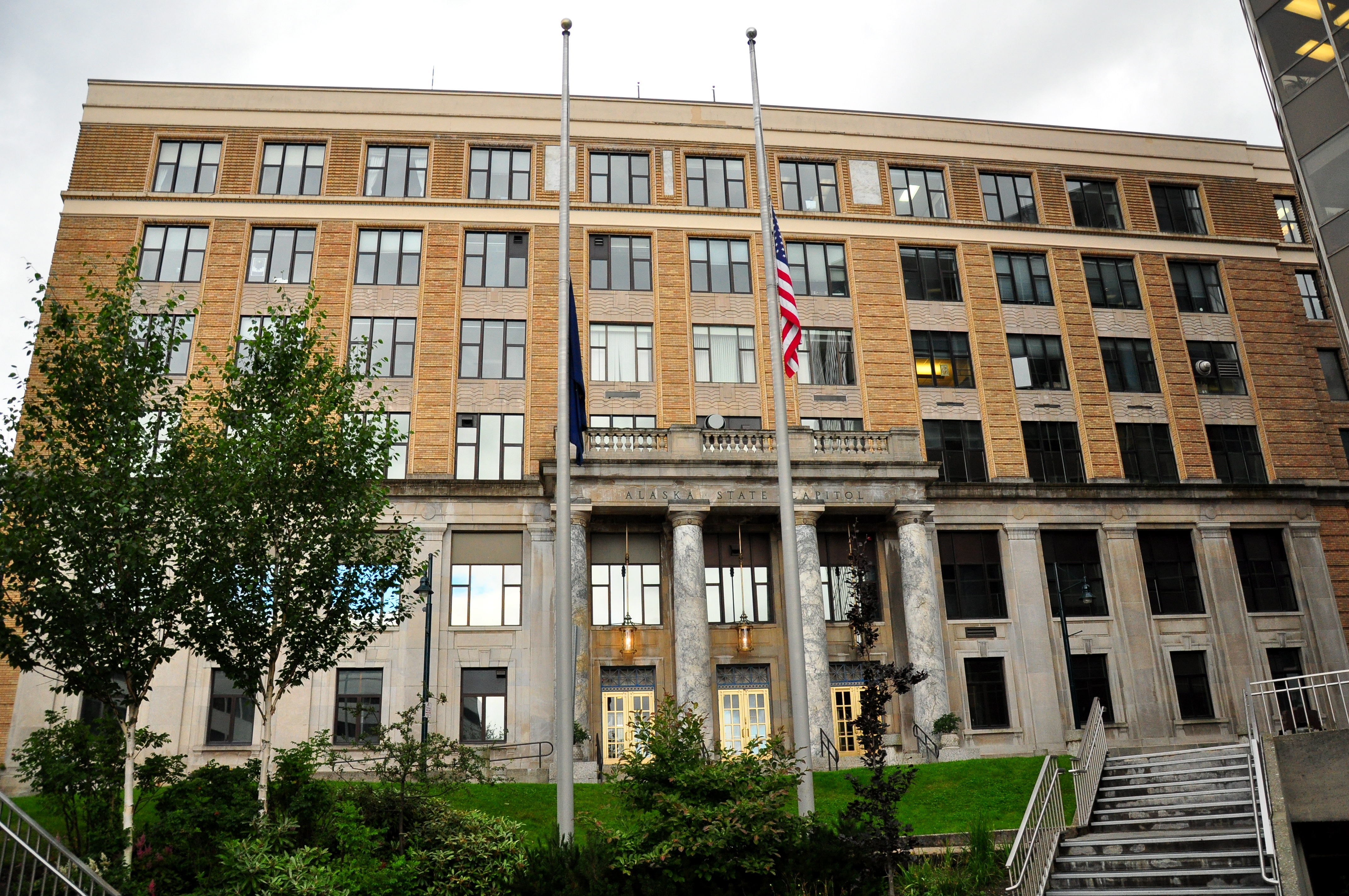 Alaska State Capitol, flags at half staff for Sen. Stevens